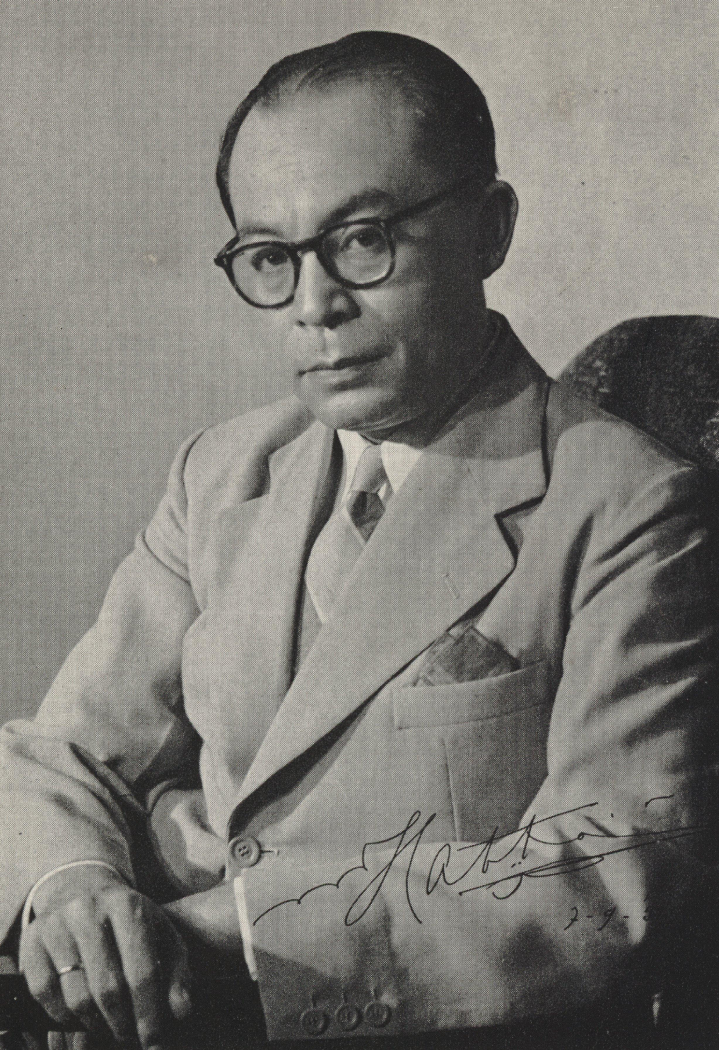 Mr. Mohammad Hatta, Prime Minister and interim Minister of Defence of the Republic of Indonesia